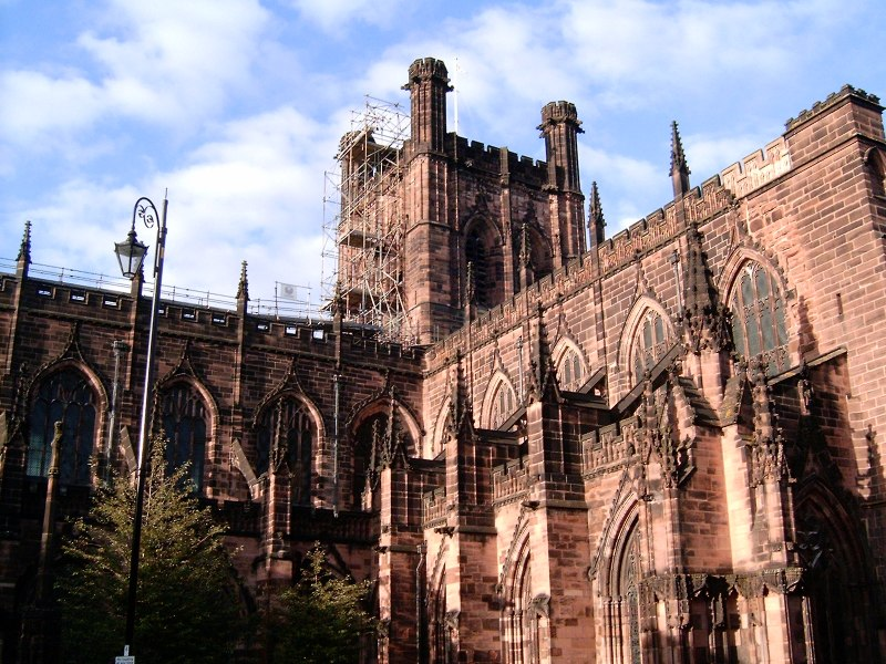 The windows of Chester Cathedral have Curvilinear drip-mouldings. Taken by myself in September 2005.